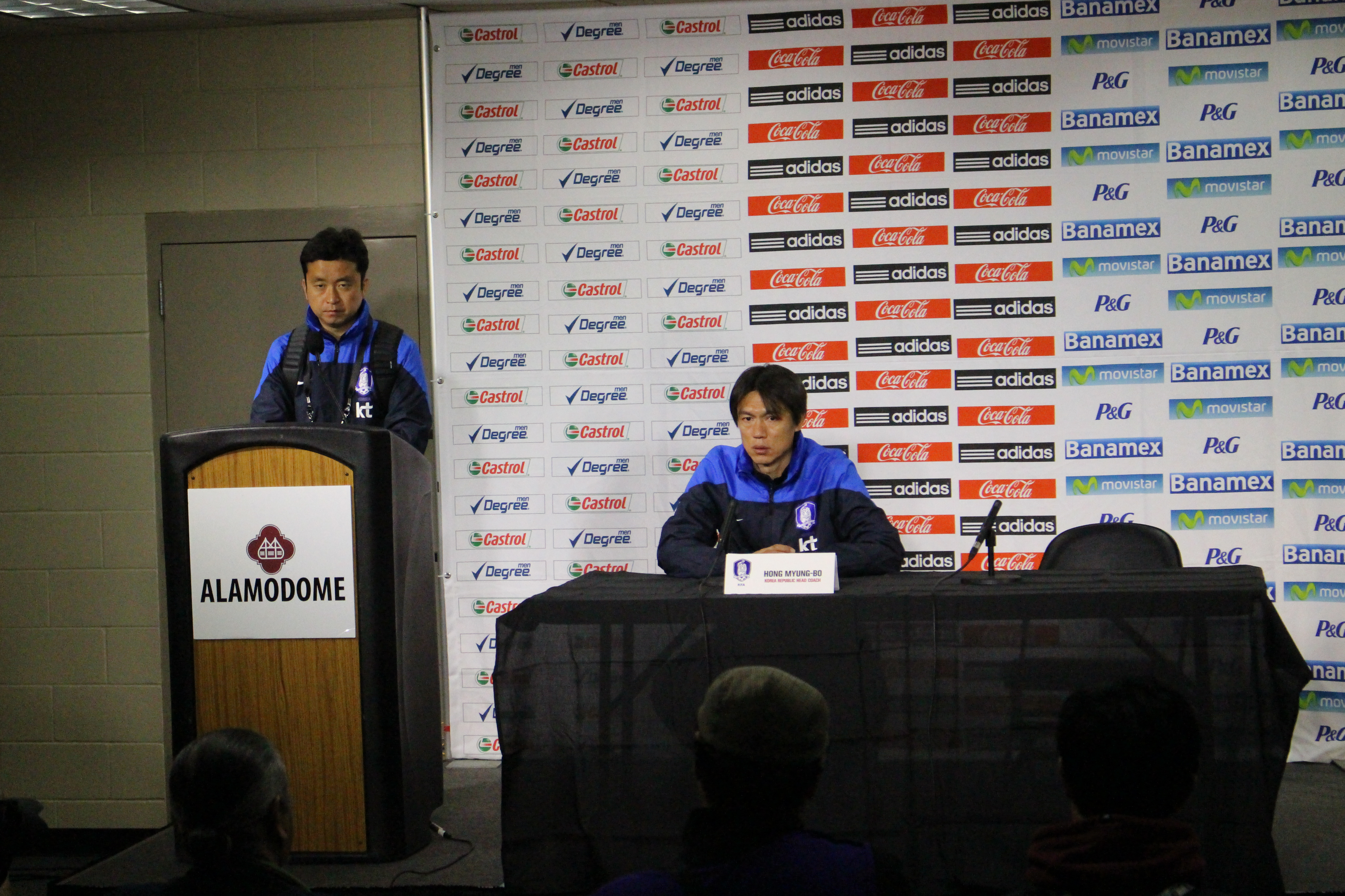 Hong Myung-bo, right, speaks to the media during the post-match press conference following South Korea’s 4-0 defeat to Mexico in an international friendly at the Alamodome in San Antonio, Texas on Wednesday, Jan. 29, 2014. The match served as a tune up for both teams leading up to their participation in the 2014 FIFA World Cup.